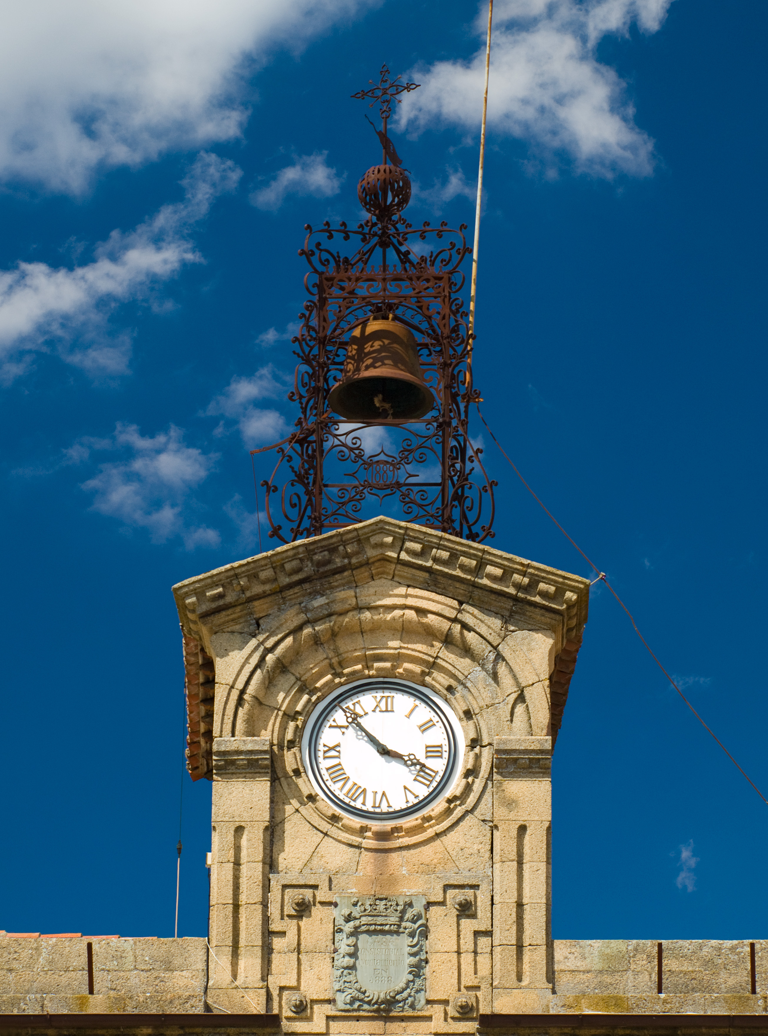 The clock tower of the Fermoselle City Hall. This spanish town is situated in the Arribes del Duero natural park.